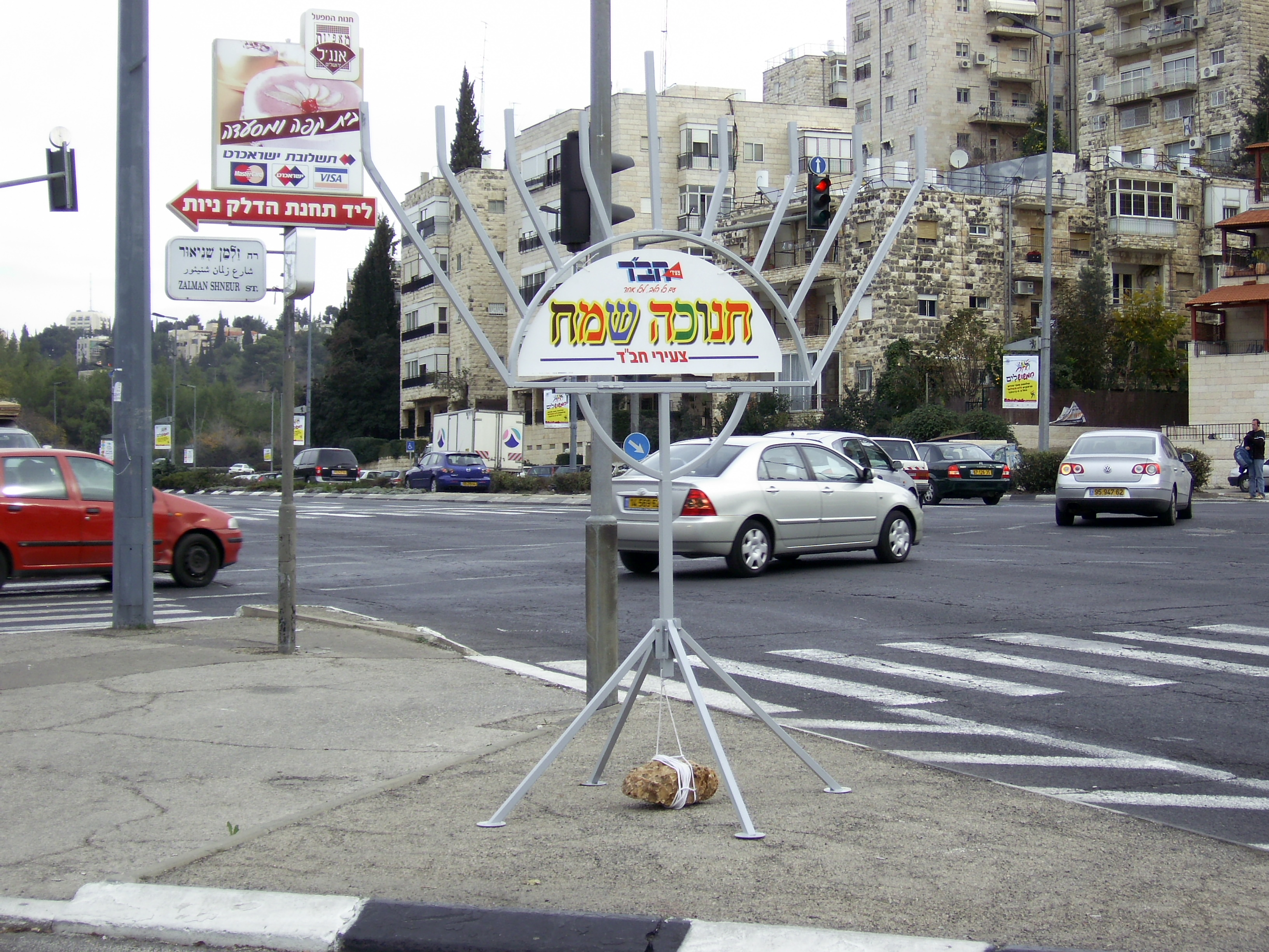 Jerusalem near the Botanic Garden, Ha-Rav Herzog street (corner of Zalman Shne'ur street) with a chanukkiyah during Hanukkah festival Jerusalem